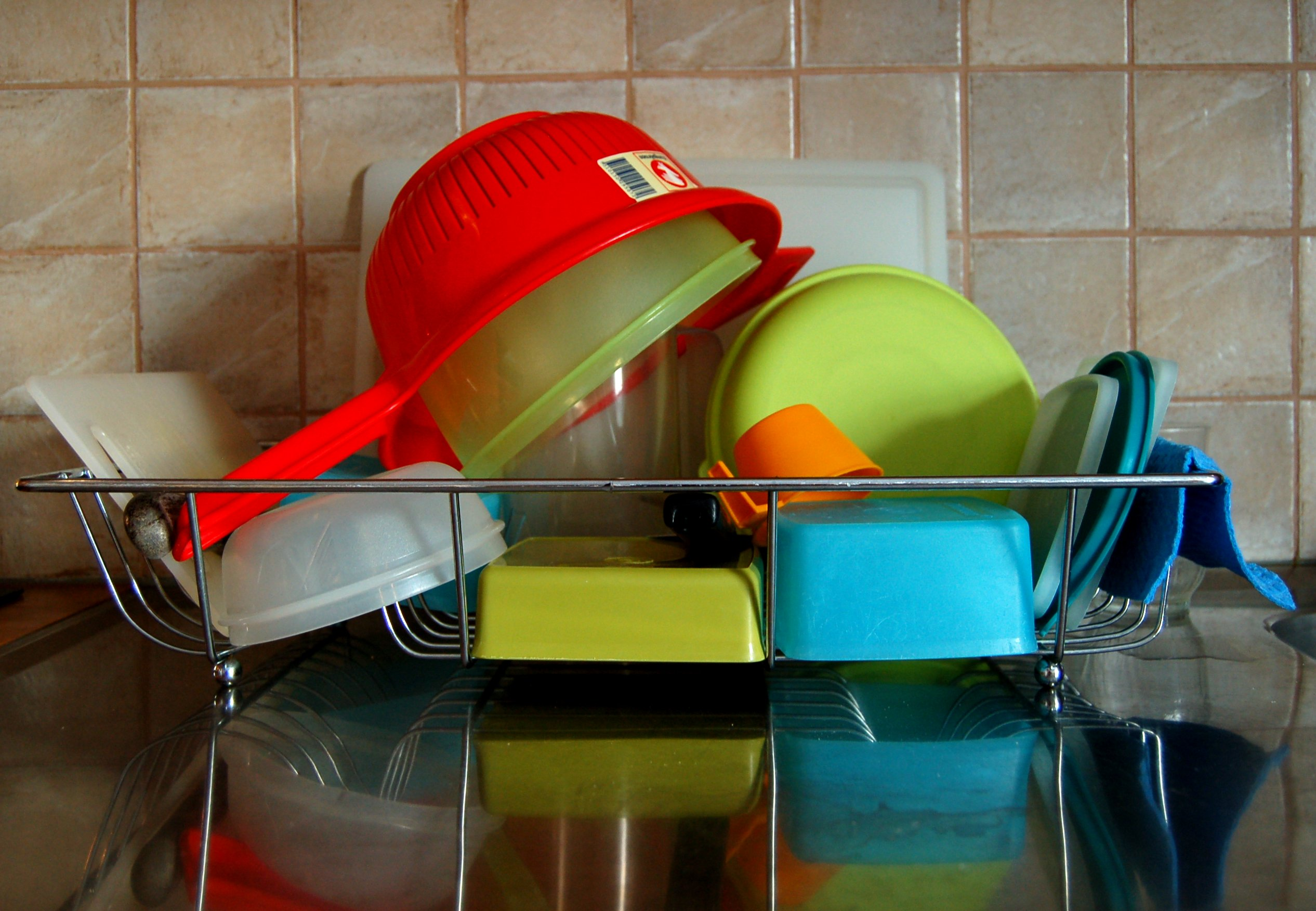 Diskställ in a kitchen, with a lot of different utensils.